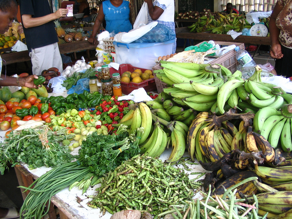 [From the archives: 1 October 2005]